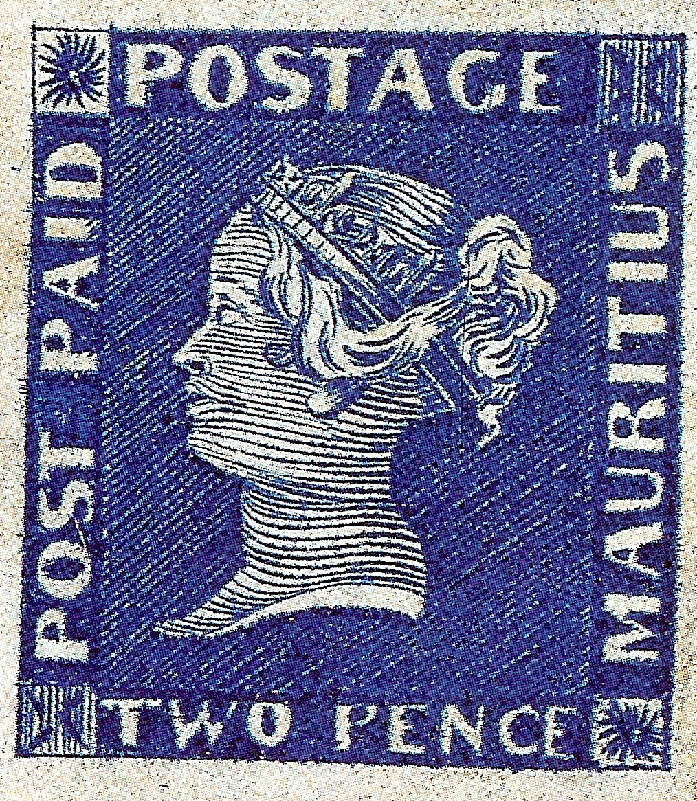 This is a scan of an image of a British Empire postage stamp issued in 1848, and therefore in the public domain worldwide. The scan was taken from the image in David Feldman SA, Maurtius Classic Postage Stamps and Postal History, Switzerland (1993) (auction catalog) p. 43; since the stamp is public domain, the two dimensional image of it also has no copyright claim and is public domain.